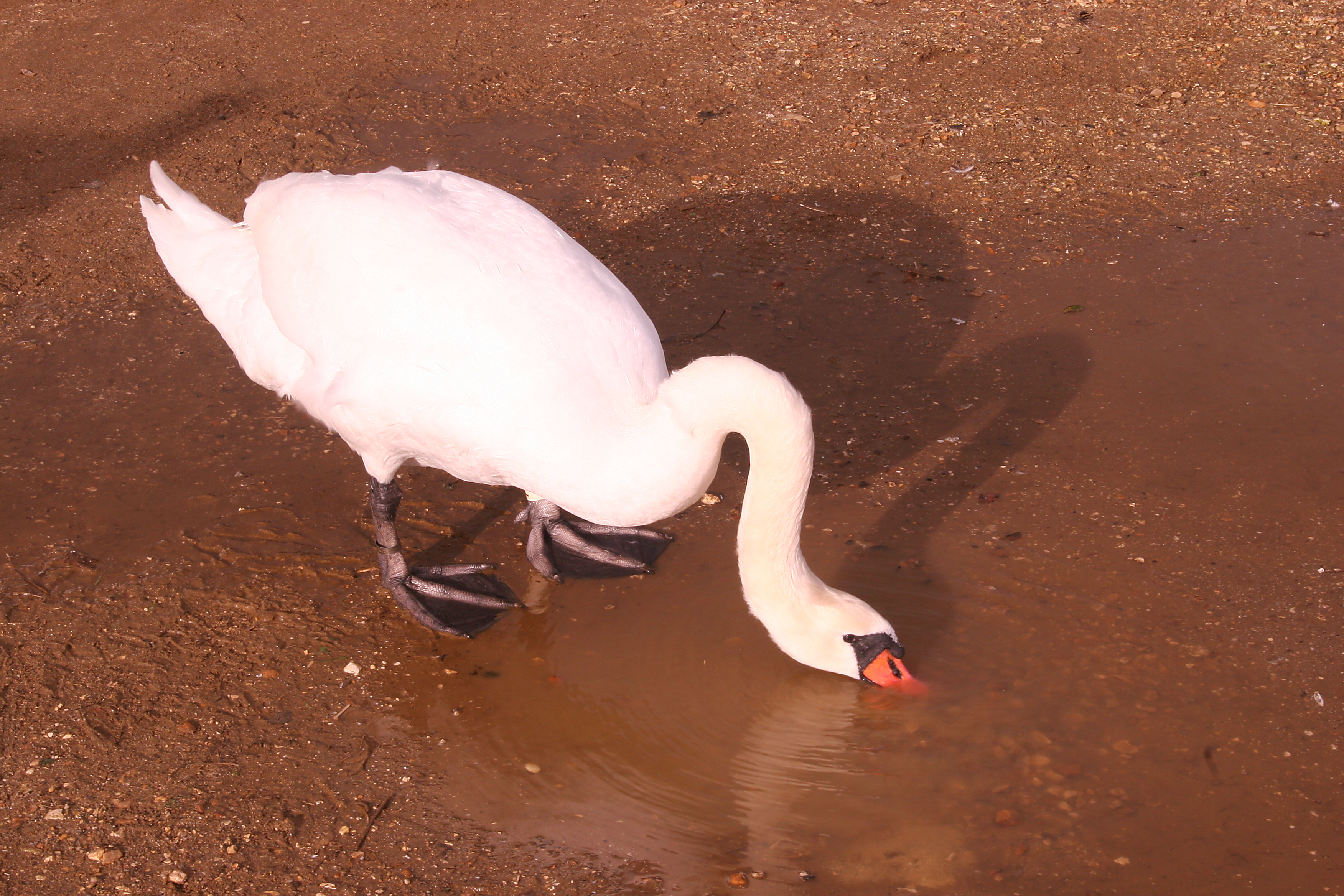 Mute Swan at Abbotsbury Swannery, UK